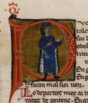 William IX of Aquitaine